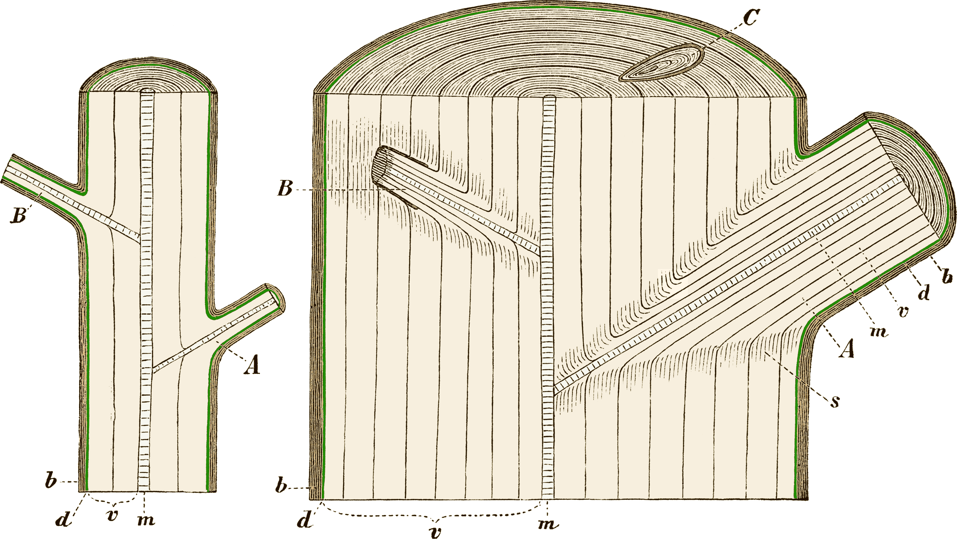 schematic average through an 2 year old (left) and an 8 year old stem. b. Bark. d. Cambium (in the green line between wood and bark). m. Pith. v. Concerning. B. An over growing 3 year old sawn off branch, totally over growing of the stem. C. A branch (knot) in cross section.